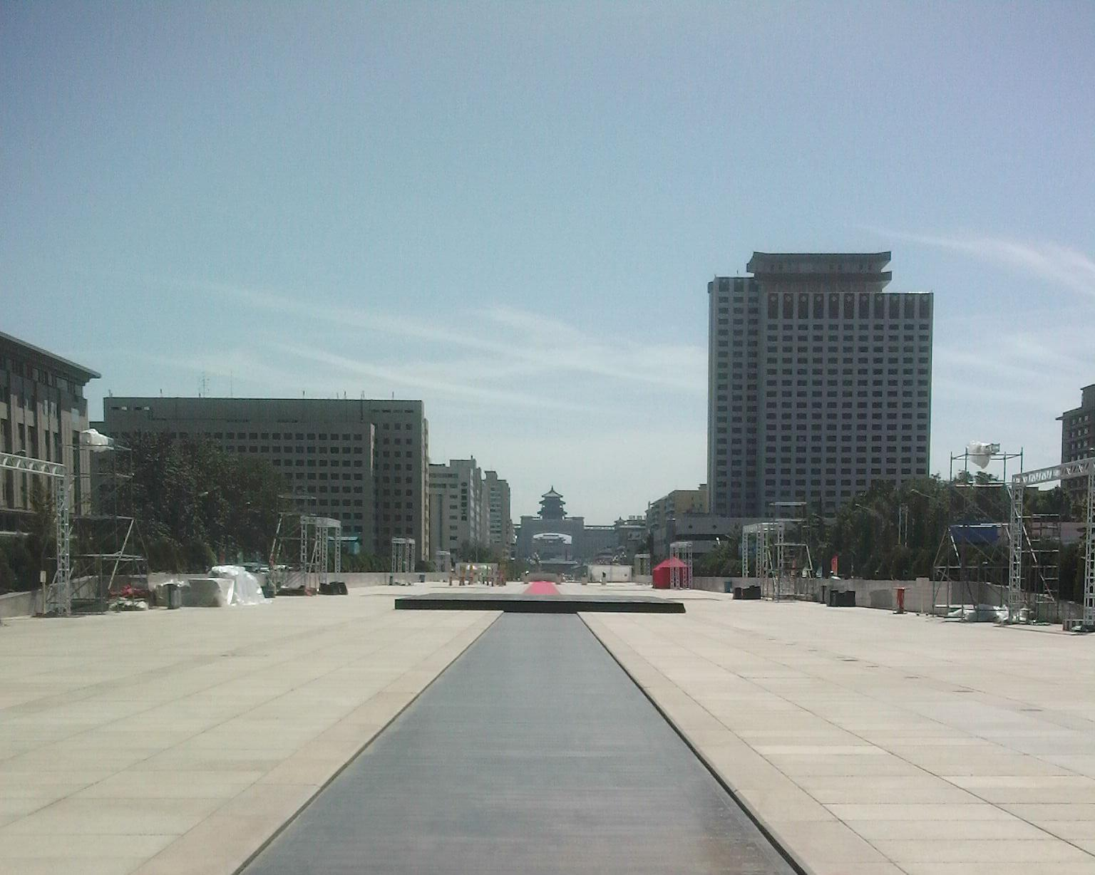 Bronze Path Leading to the China Millennium Monument 中文（中国大陆）: 中华世纪坛前的青铜甬道